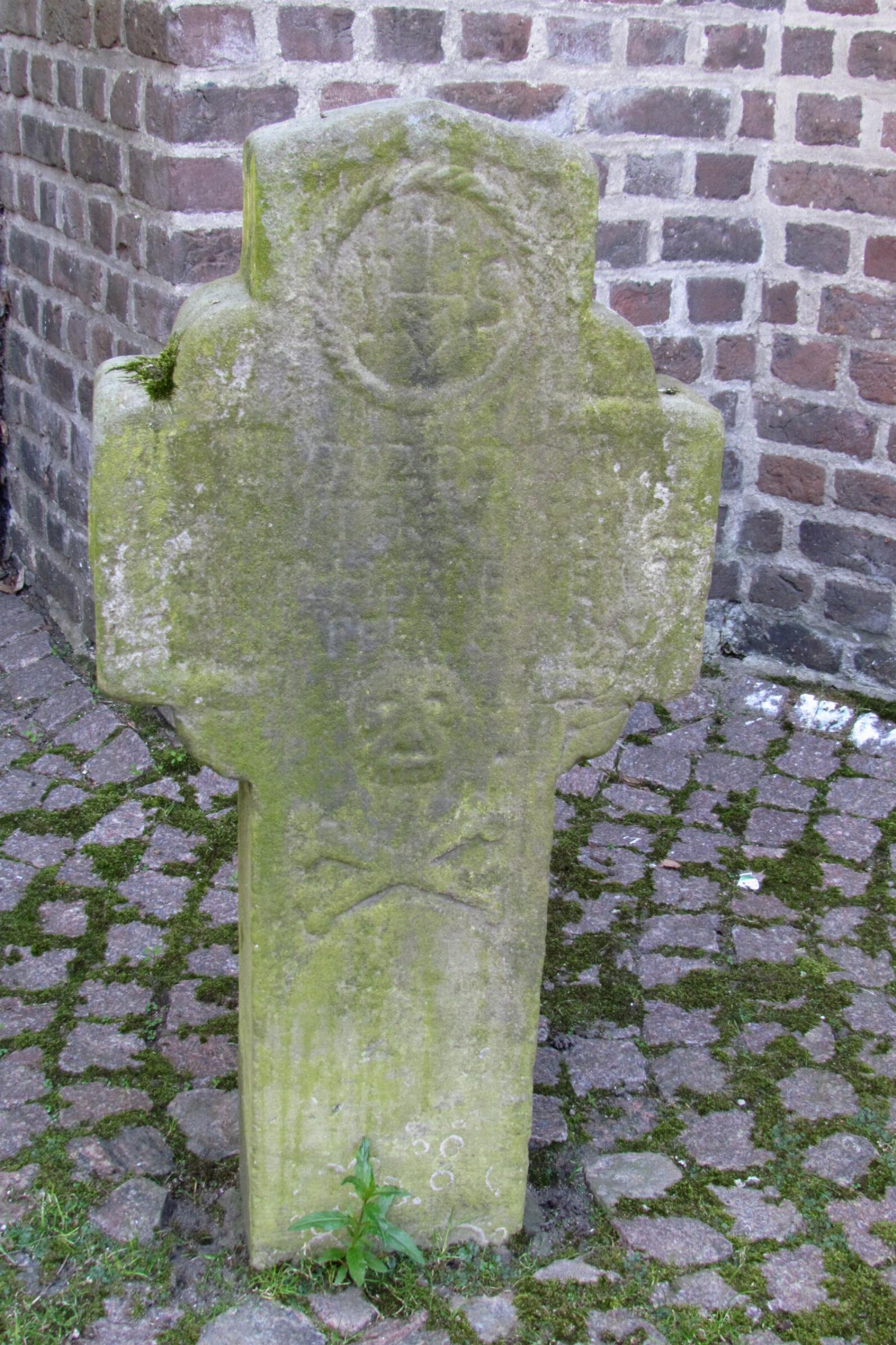 This is a photograph of an architectural monument.It is on the list of cultural monuments of Korschenbroich